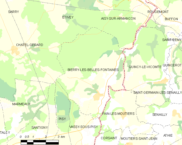 Map of French municipality Bierry-les-Belles-Fontaines